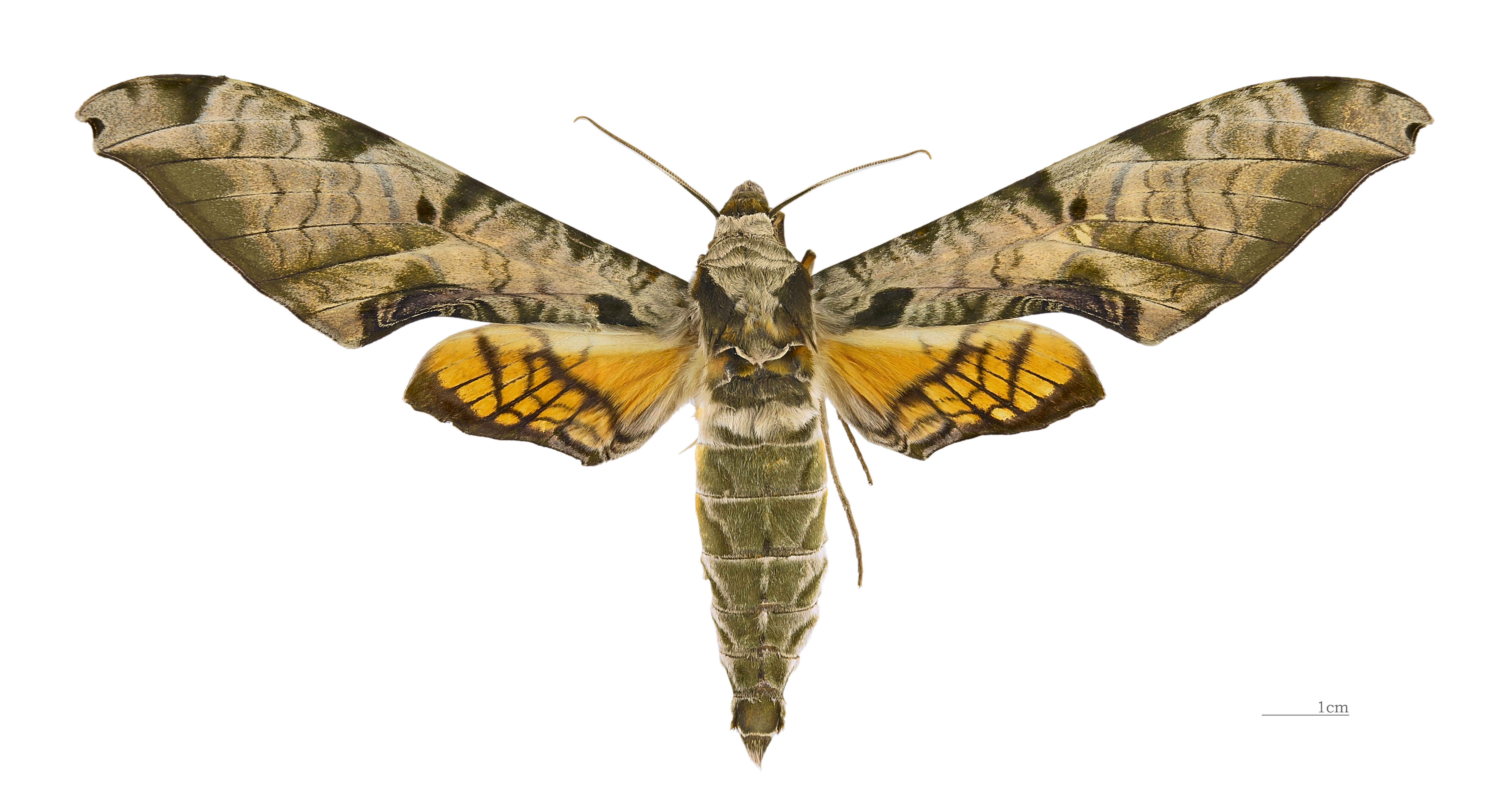 Protambulyx eurycles - Dorsal side